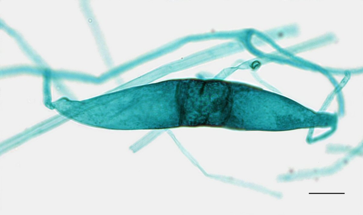 Light microscopy of Rhizopus showing the early stages of plasmogamy when the immature zygosporangium begins to form. Scale bar = 0.1mm.